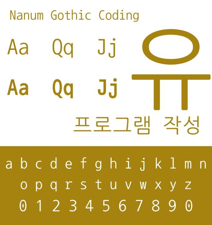 Sample of the Nanum Gothic Coding typeface. The snippet of text below is "Programming" in Korean